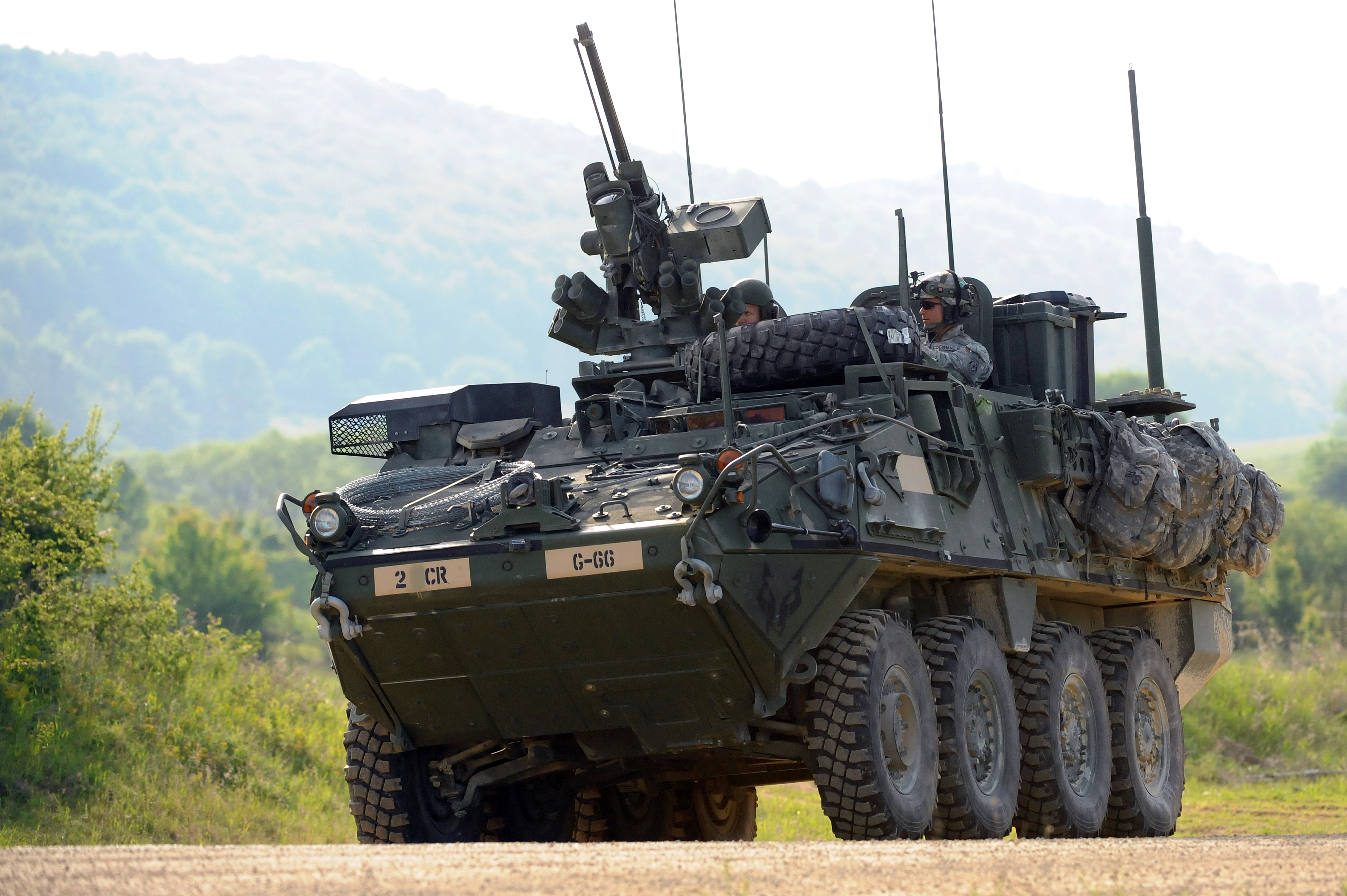 Capt. David Cochrane (right), commander of Ghost Company, 3rd Squadron, 2nd Cavalry Regiment, moves down the tank trail in his Stryker vehicle during the regiment's ongoing exercise evaluations at Hohenfels Training Area, Germany, May 23, 2012.